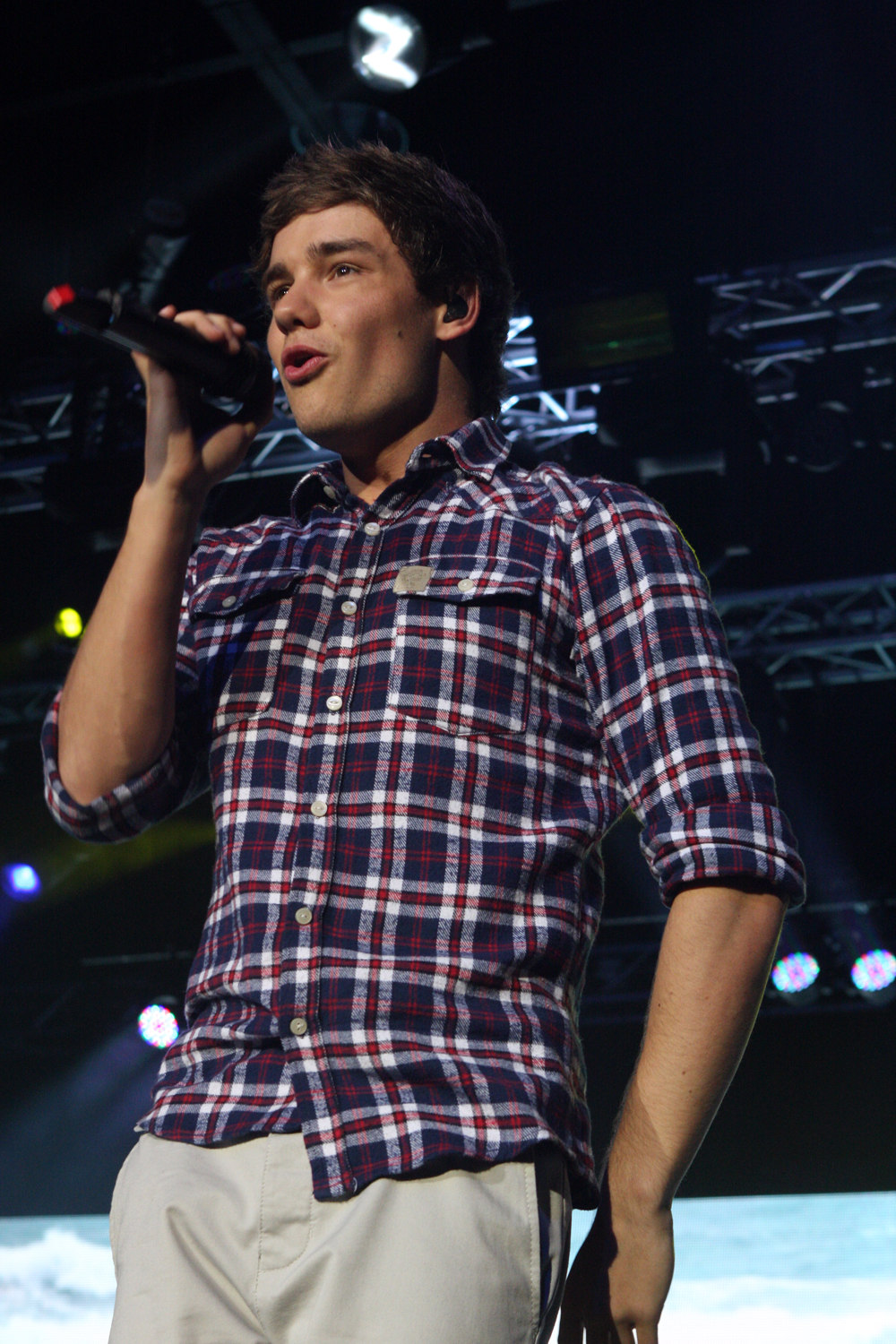 One Direction performs at Hordern Pavilion, Moore Park, Sydney, Australia